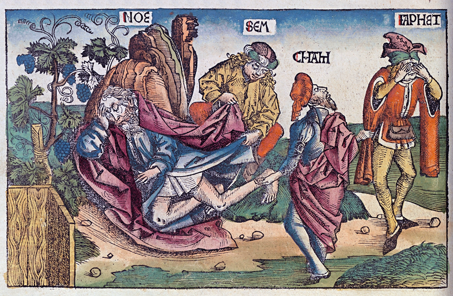 This is a part of a scan of an historical document: Title: Schedelsche Weltchronik or Nuremberg Chronicle